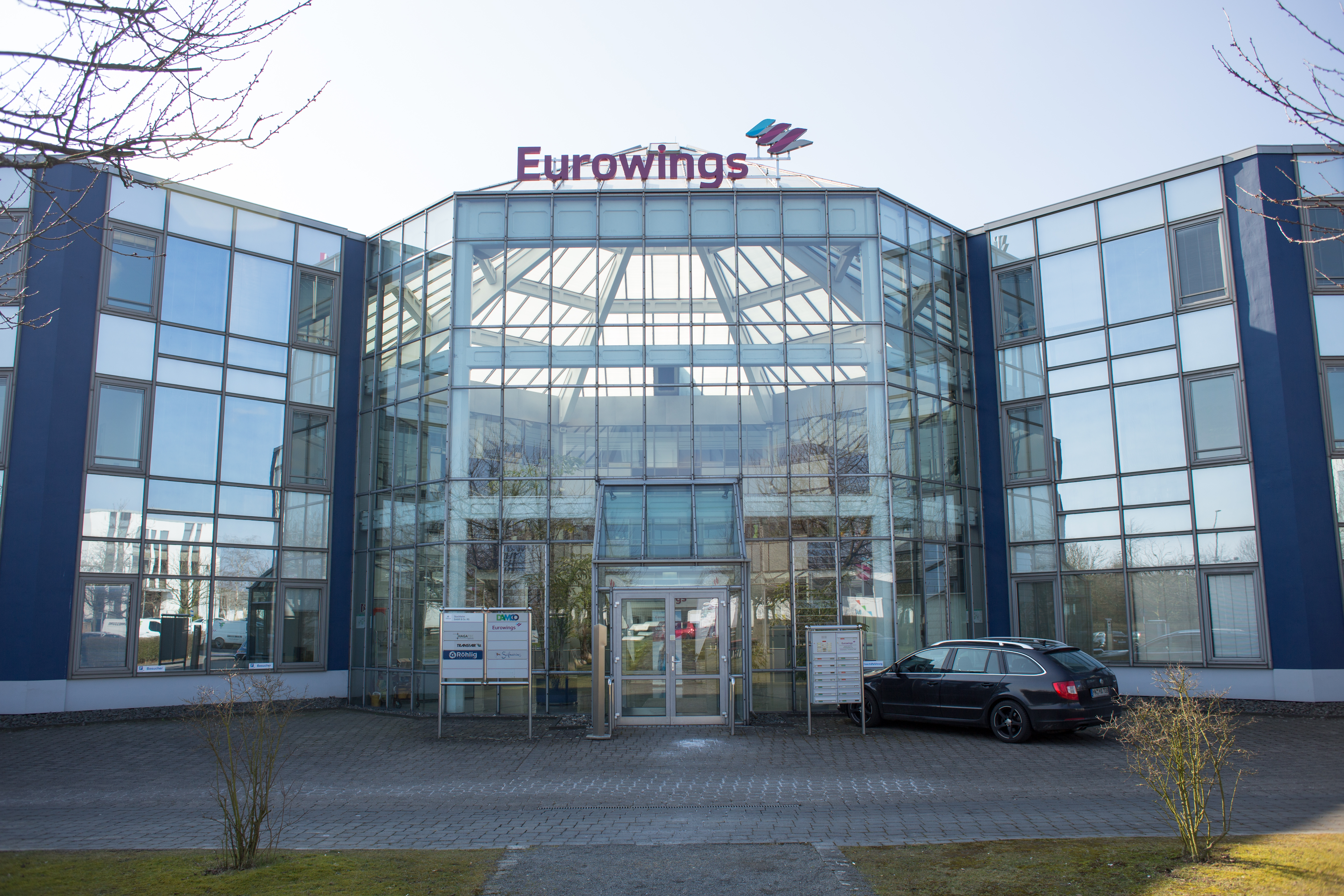 Eurowings Head office at Großenbaumer Weg 6 D-40472 Düsseldorf Germany